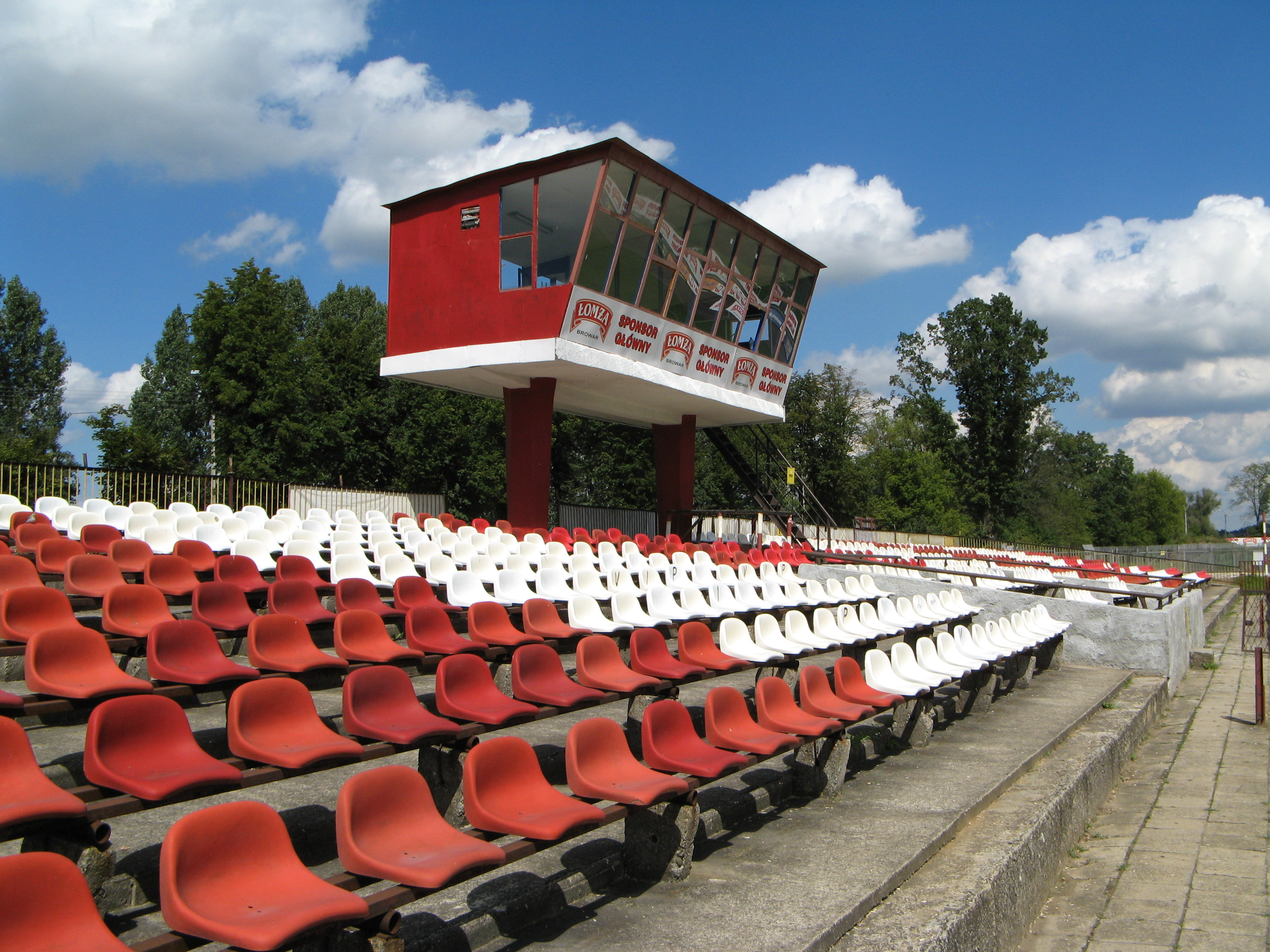 Stadium of ŁKS Łomża football club from Łomża